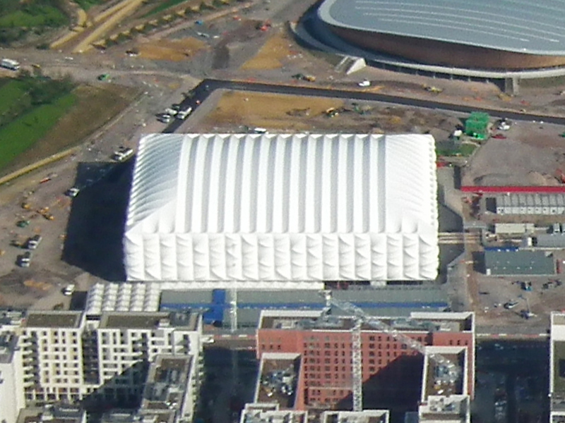 Construction of Olympic Park, London — June 2011. Aerial photo of the Basketball Arena.